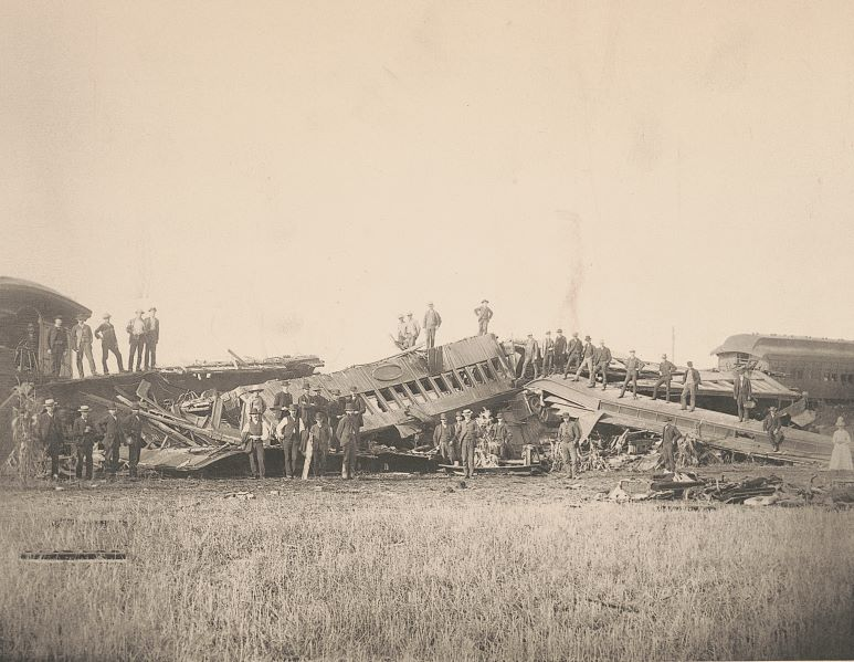 Photograph shows wreck of railroad train near Chatsworth, Illinois, Aug. 11, 1887.